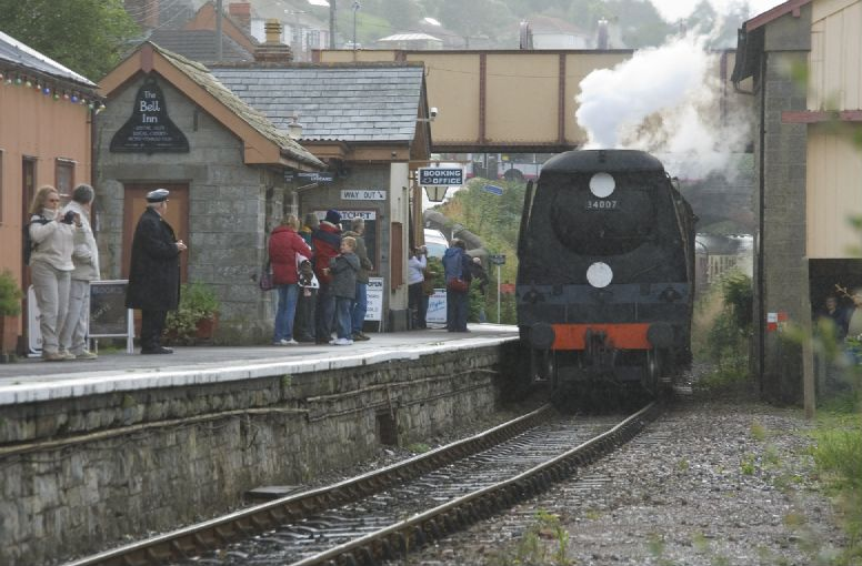 Unrebuilt West Country Class 'Wadebridge' arrives at Watchet. Although hard to see it was raining quite hard.